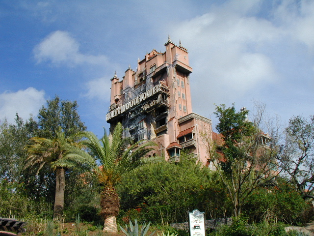 Looking up at The Hollywood Tower Hotel (The Twilight Zone Tower of Terror) at Disney-MGM Studios at Walt Disney World, December 2004. Source: Brandon Wholey, 2004.